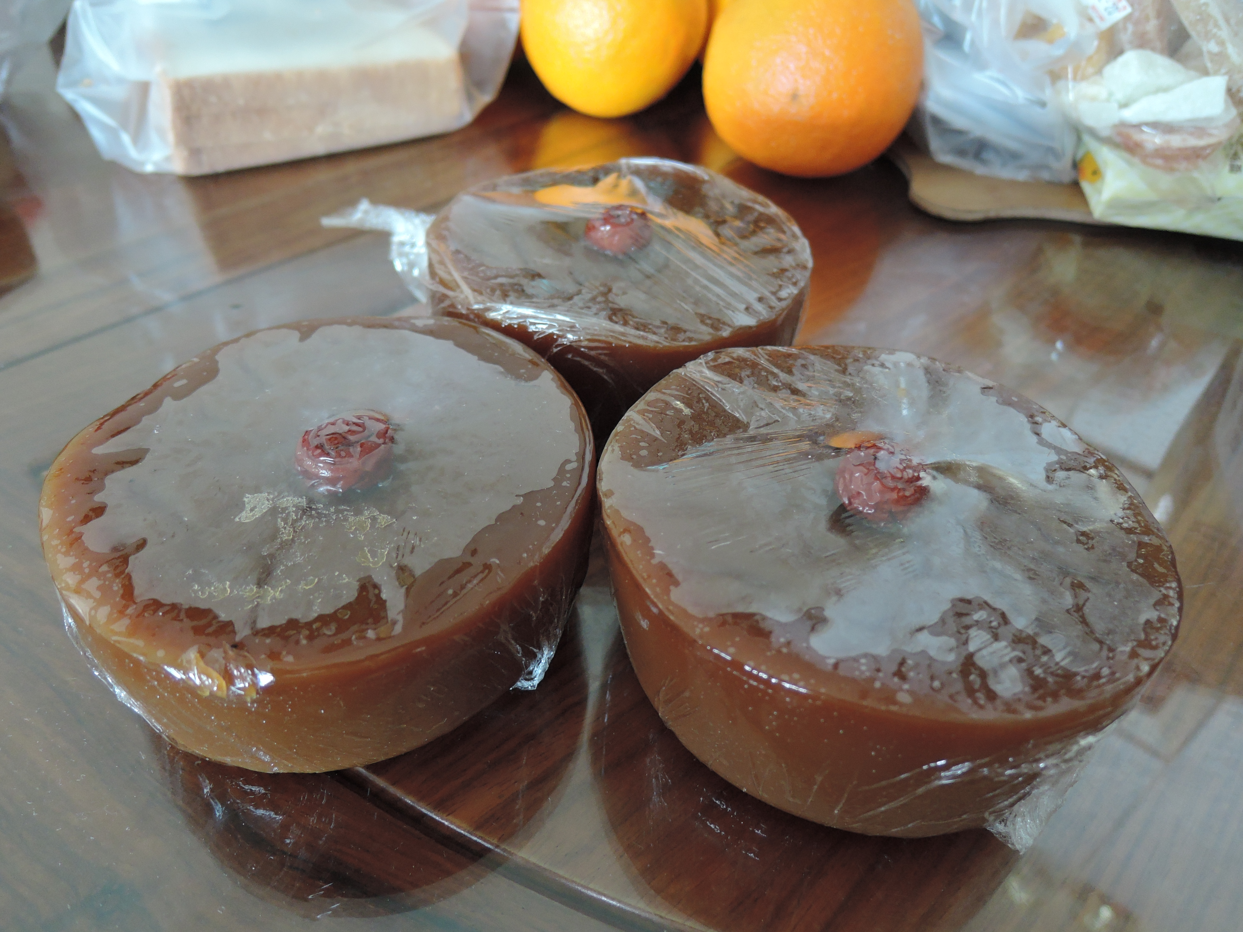 Three chinese new year pudding from local Chinese bakery in Yuen Long